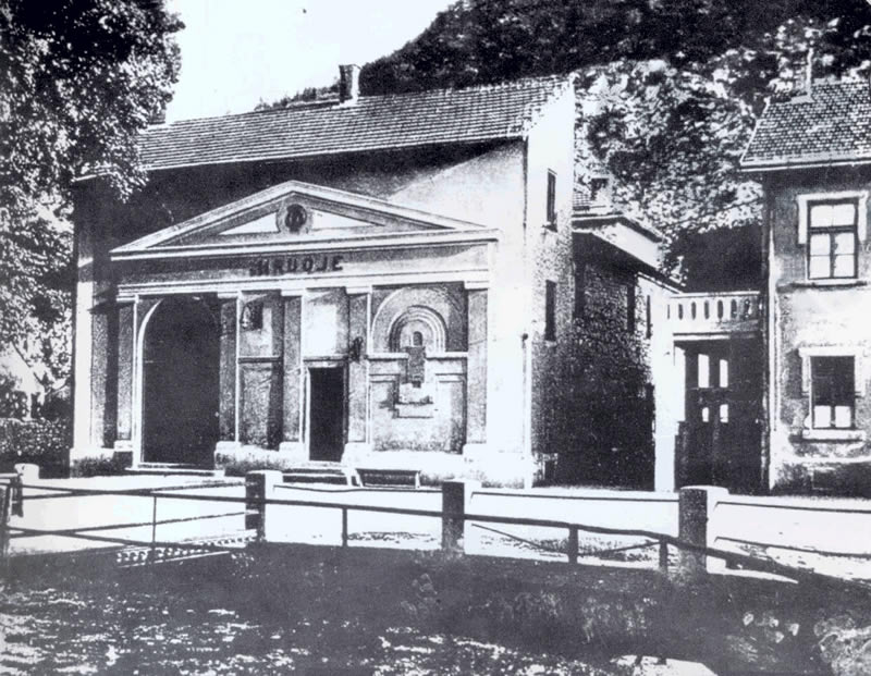 Building of Croatian culture society Hrvoje, 1905. Mostar